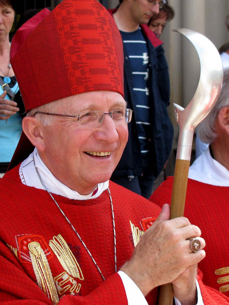 Ulrich Boom - Auxiliary bishop of Würzburg 20. May 2009 at Bad Kissingen